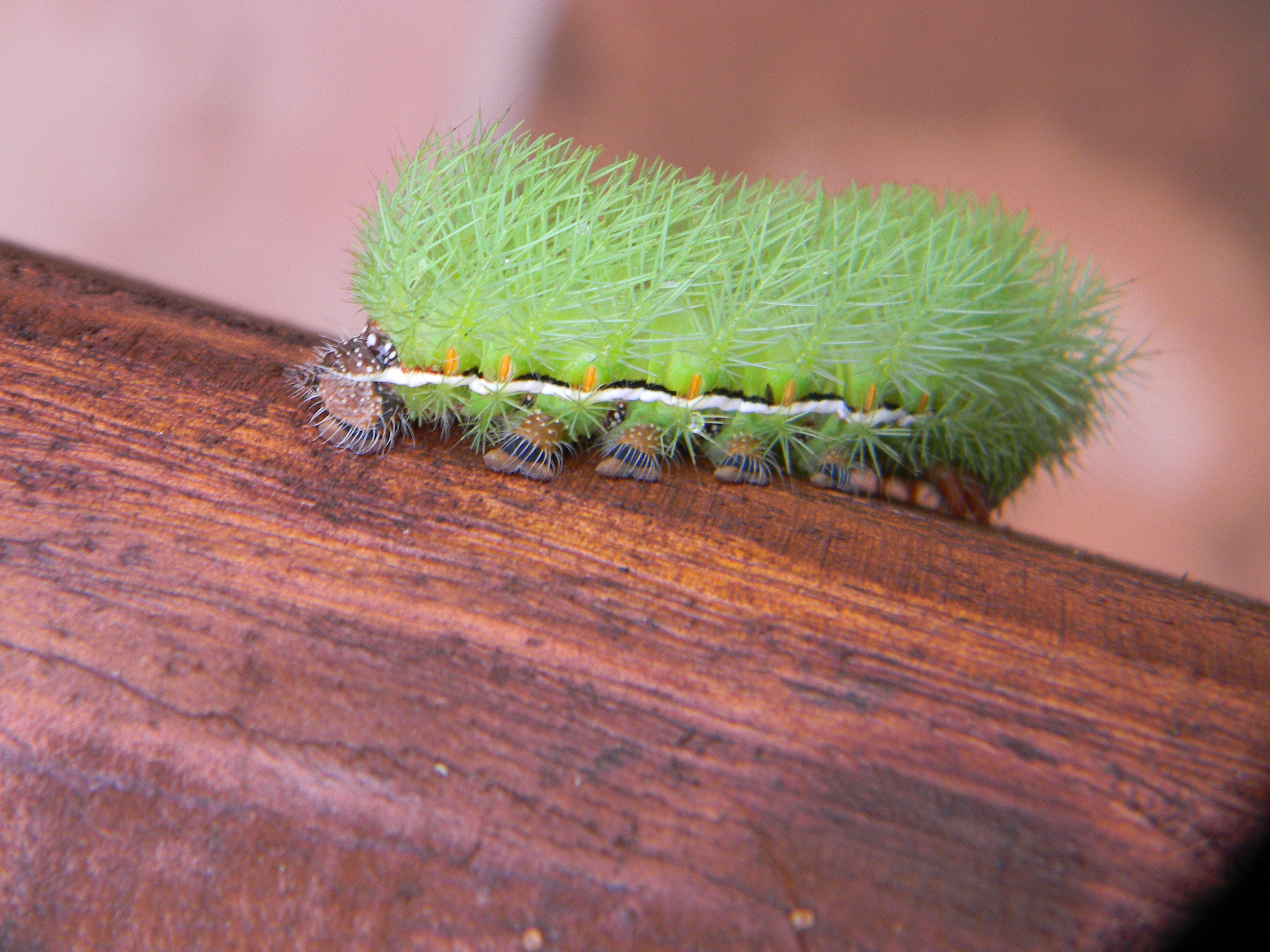 Caterpillar from Belize, San Ignacio